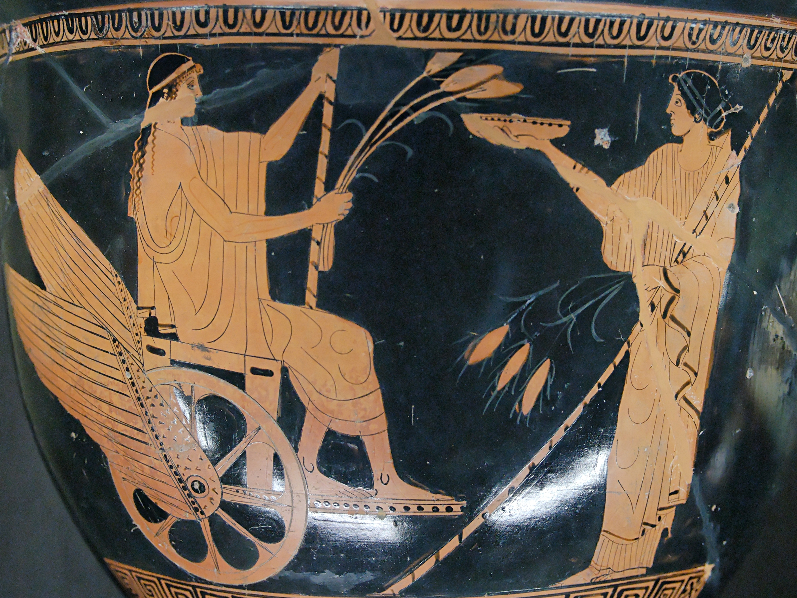 Triptolemus starting on his mission of educating the whole of Greece in the art of agriculture. Side A from an Attic red-figure krater with ear-handles.